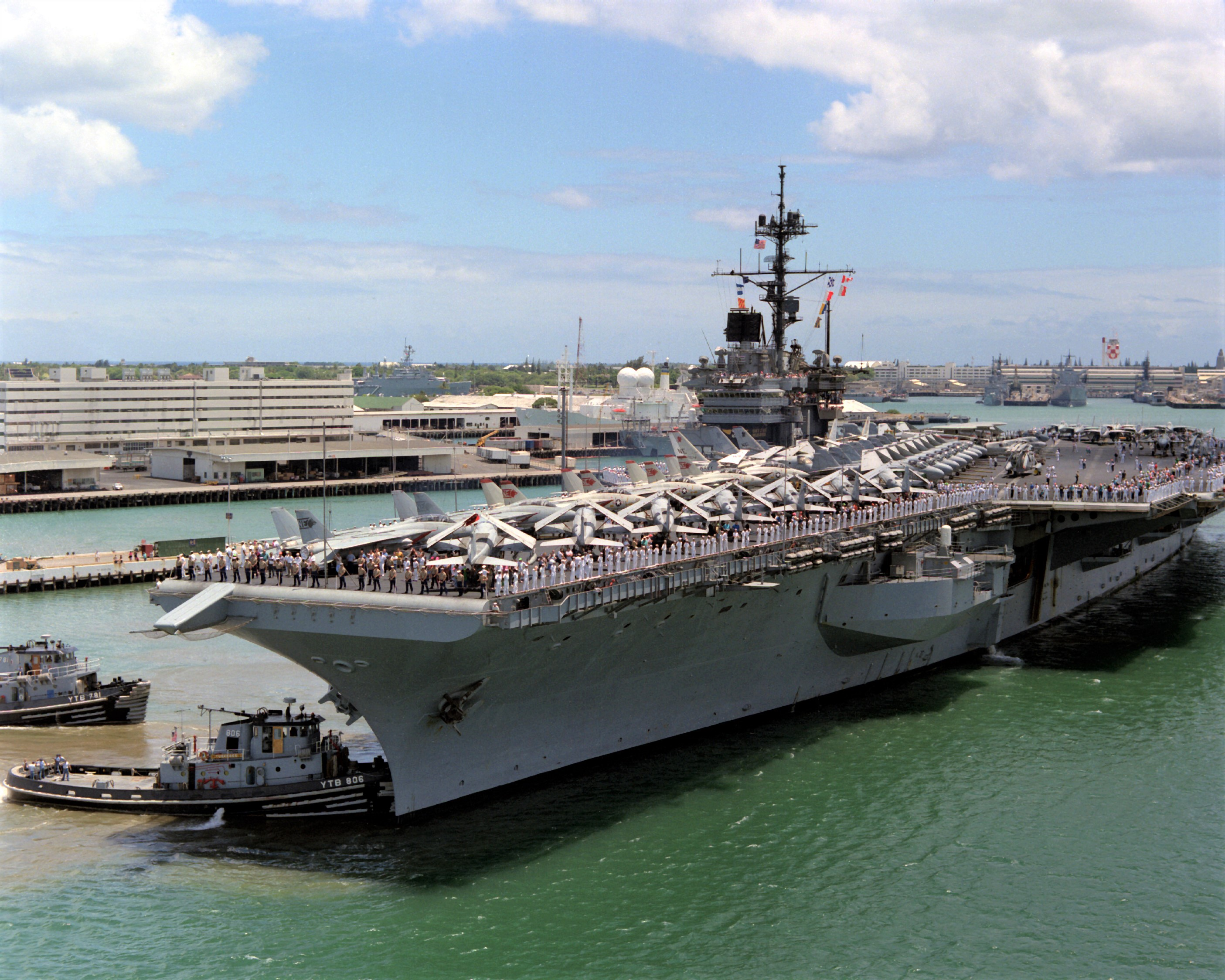 The U.S. Navy tugs USS Tuskegee (YTB-806) and USS Niantic (YTB-781) assist the aircraft carrier USS Ranger (CV-61) while docking at the Naval Supply Center pier at Naval Station Pearl Harbor, Hawaii (USA), 1 June 1991. Ranger was stopping off at Pearl Harbor while en route to her home port after returning from deployment in the Persian Gulf during Operation Desert Storm.